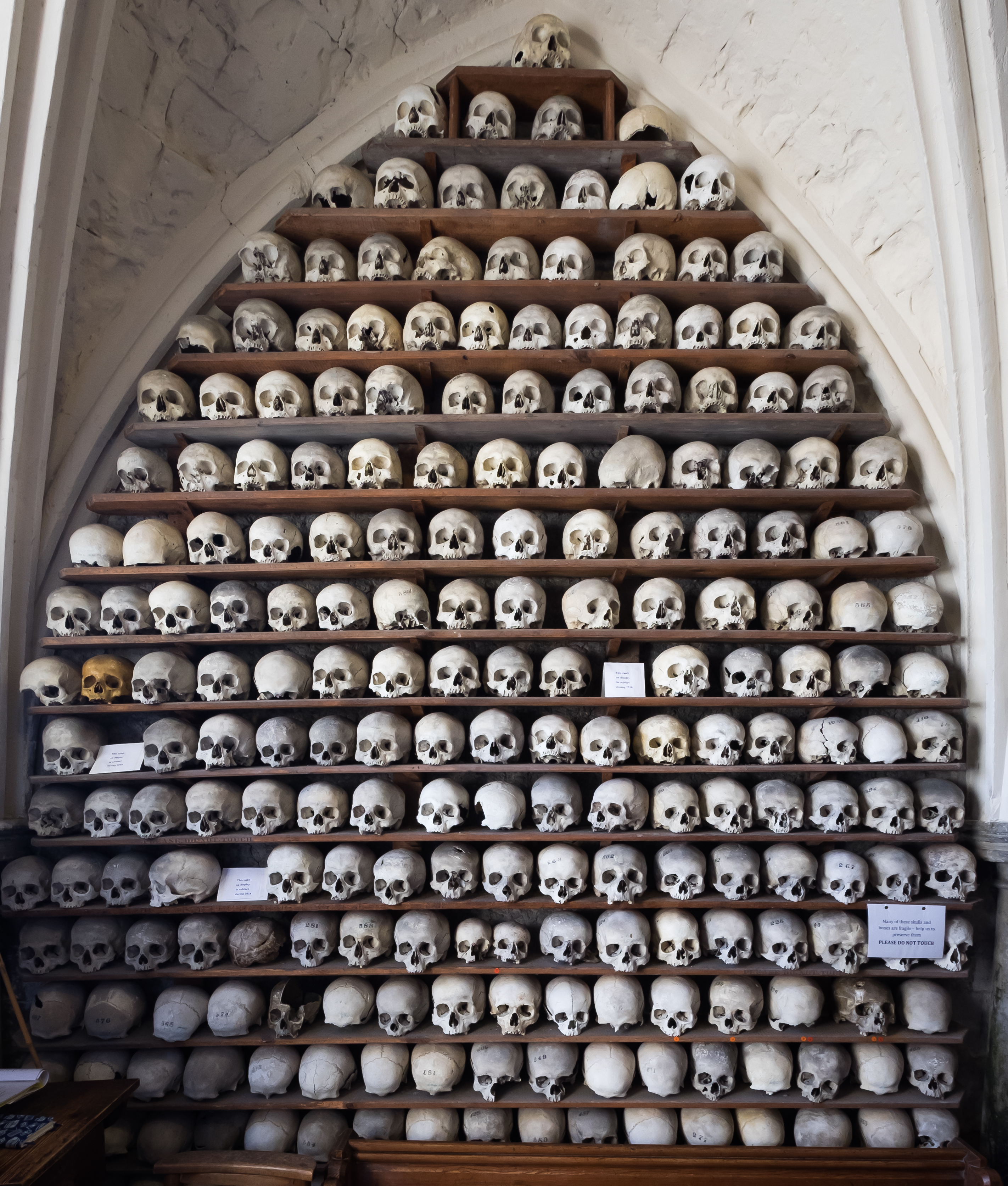 Stack of skulls in the ossuary of St Leonard's church, Hythe, Kent